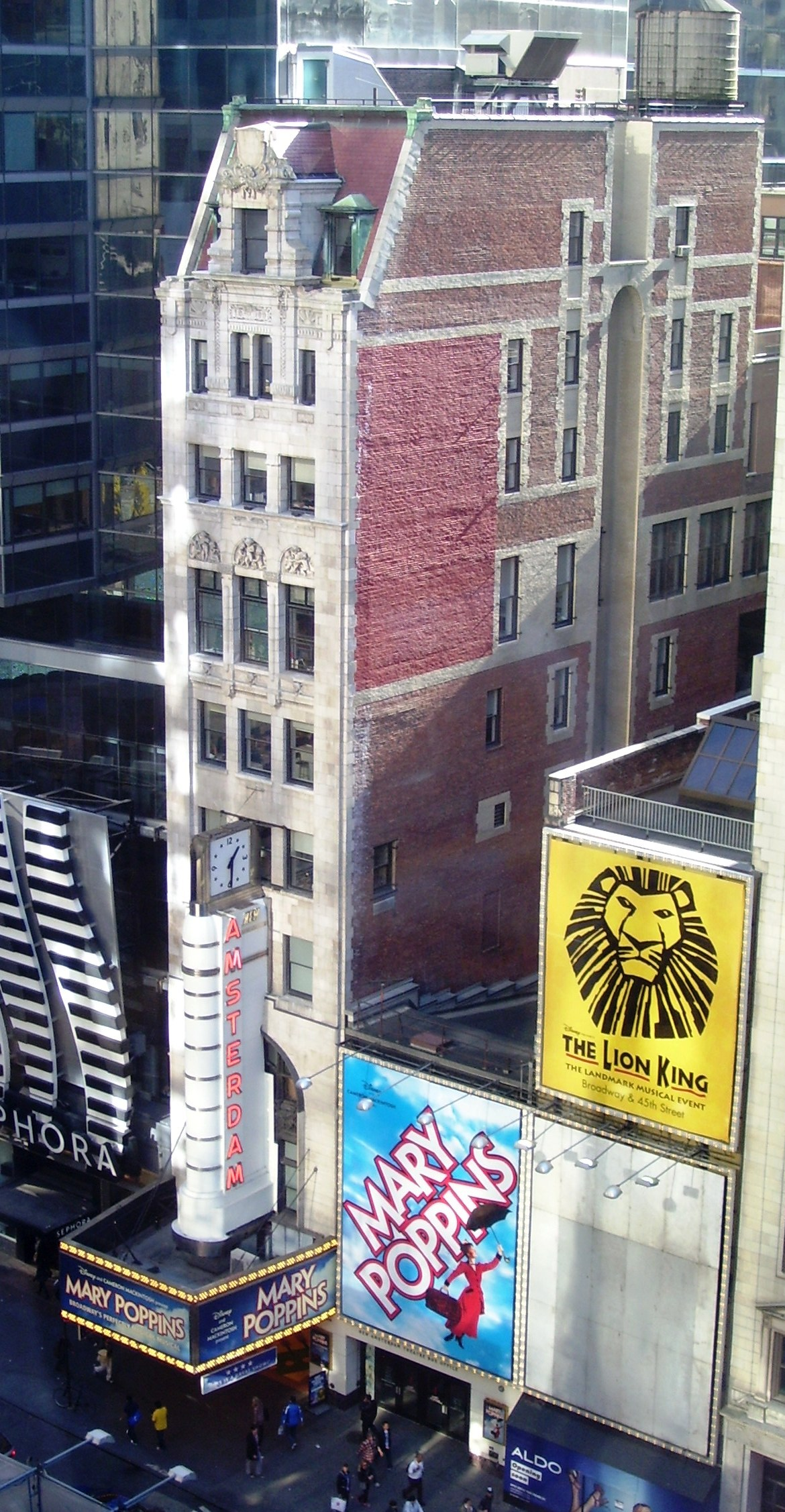 The New Amsterdam Theatre, at 214 West 42nd Street between Seventh and Eighth Avenues in the Theatre District of Manhattan, New York City, was built in 1902-1903 and was designed by Herts & Tallant in the Beaux-Arts style; The Roof Garden, no longer extant, was added in 1904. For many years the theatre was the home of the Ziegfeld Follies, George White's "Scandals" and Eva LeGallienne's Civic Repertory Theatre. It was used as a movie theatre beginning in 1937, closed in 1985, then was bought by the Disney Corporation and renovated by Hardy Holzman Pfeifer in 1995-97 to be the flagship for Disney's theatrical presentations on Broadway. Both the exterior and the Art Nouveau interior – which features murals by George Peixotto and Robert Blum as well as tiles by Henry Mercer – are NYC landmarks. (Sources: Guide to NYC Landmarks(4th ed.) and AIA Guide to NYC (4th ed.)) This image shows the theatre building as seen from the 9th floor of the New 42nd Street Building.